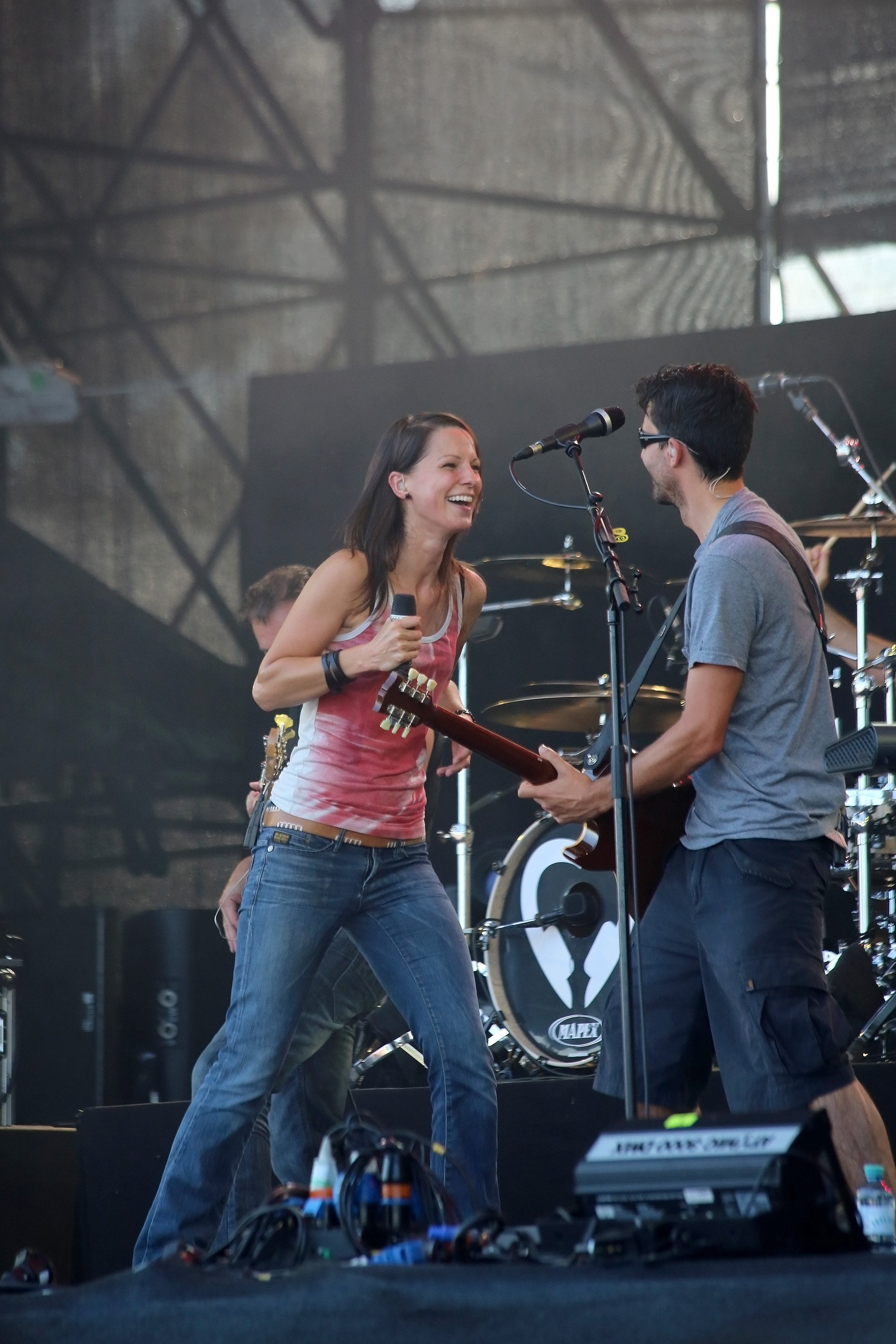 Christina Stürmer & Band - Donauinselfest 2013 in Vienna, Austria